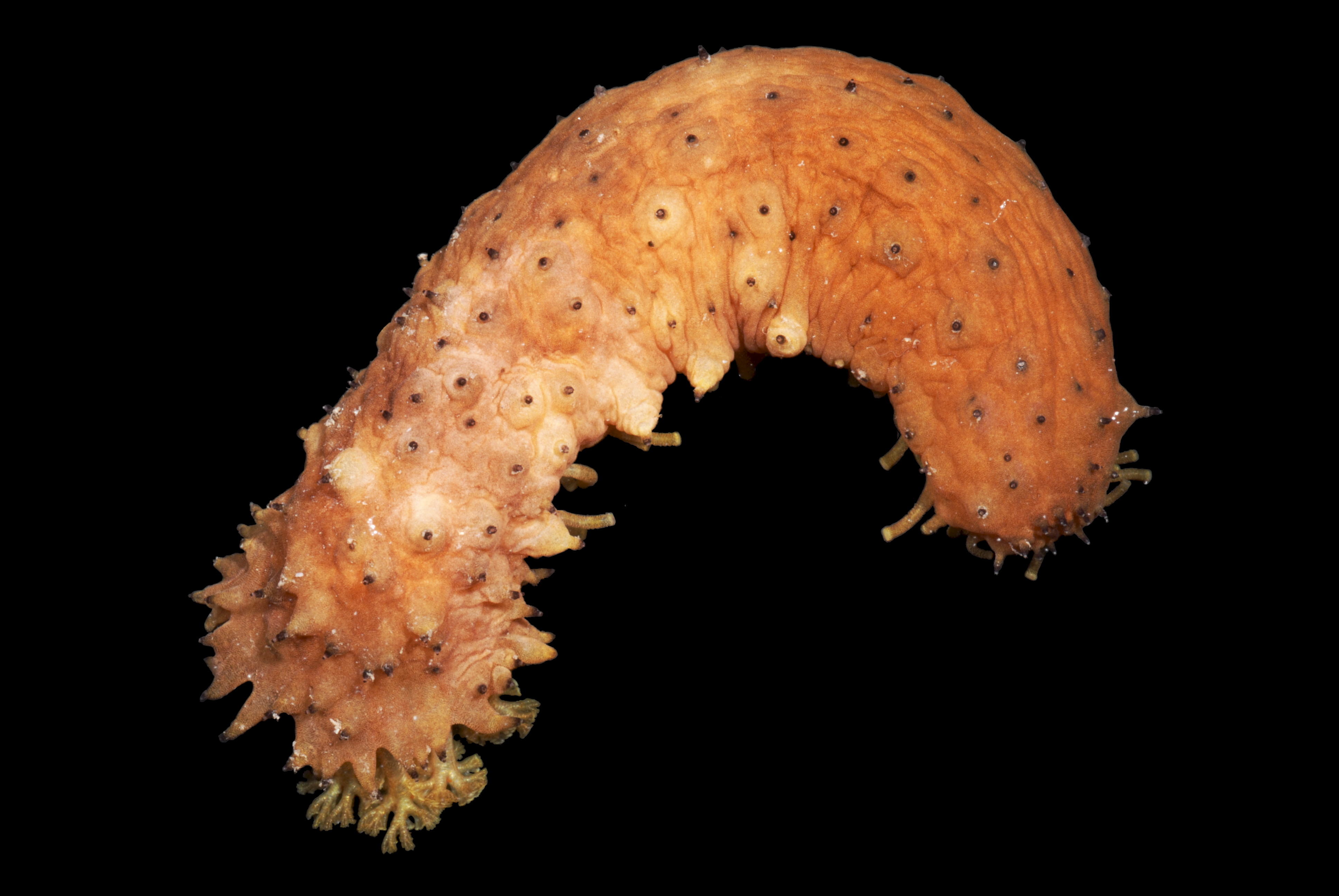 Holothuria difficilis. La Réunion.